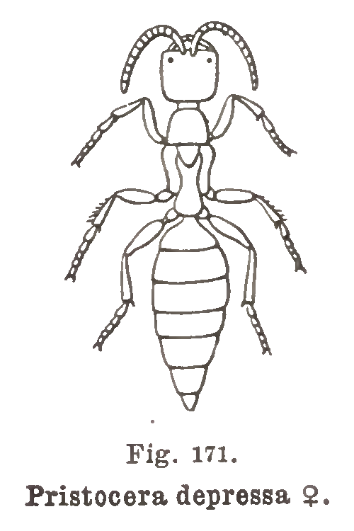 Pristocera depressa female